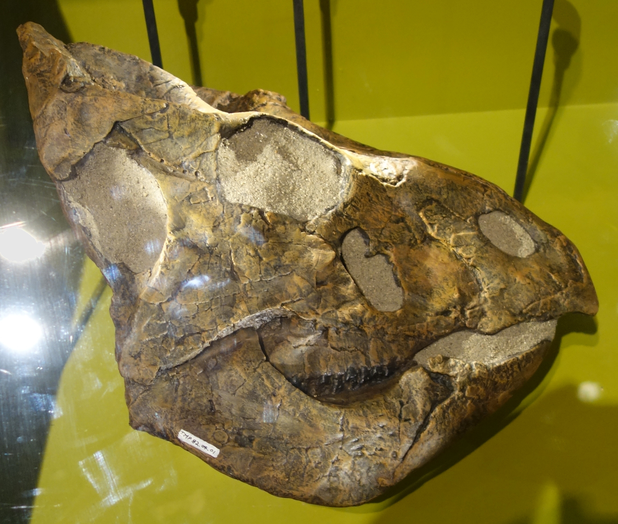 Skull of Leptoceratops gracillis, from the Tolman Bridge area, Alberta. On display at the Royal Tyrrell Museum, Alberta, Canada.